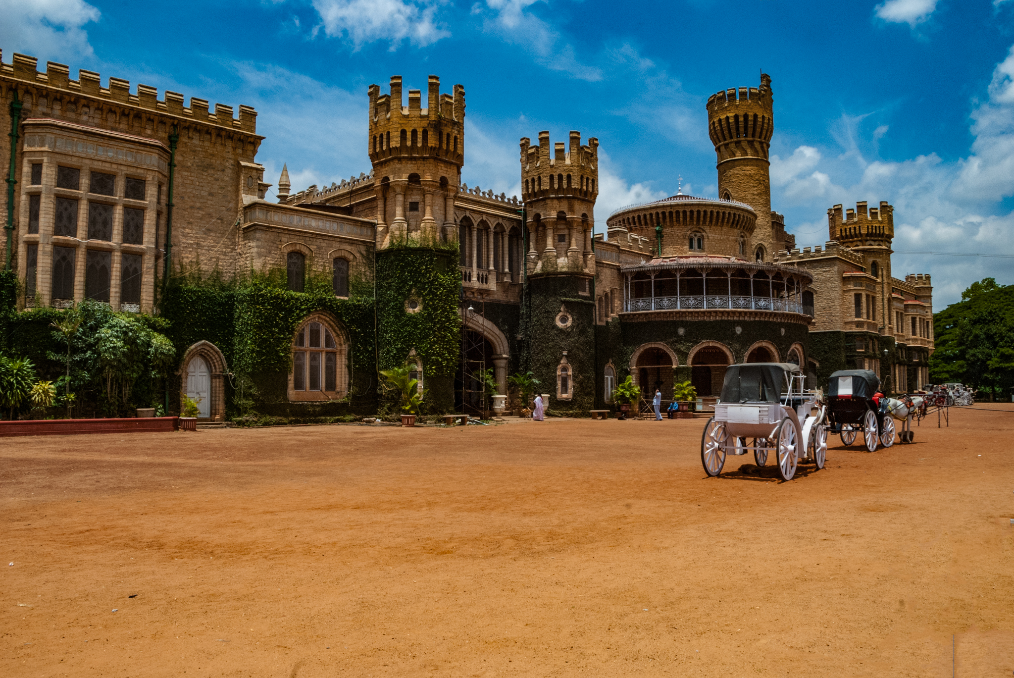 Bangalore Palace, a palace located in Bengaluru, Karnataka, India, was built by Rev. J. Garrett, who was the first Principal of the Central High School in Bangalore, now known as Central College. The construction of the palace was started in 1862 and completed in 1944. In 1884, it was bought by the then Maharaja of Mysore Chamarajendra Wadiyar X. Now owned by the Mysore royal family, the palace has recently undergone a renovation.